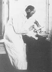 Korbinian Brodmann in neurobiological laboratory (Neurobiologisches Laboratorium) about 1902/03.